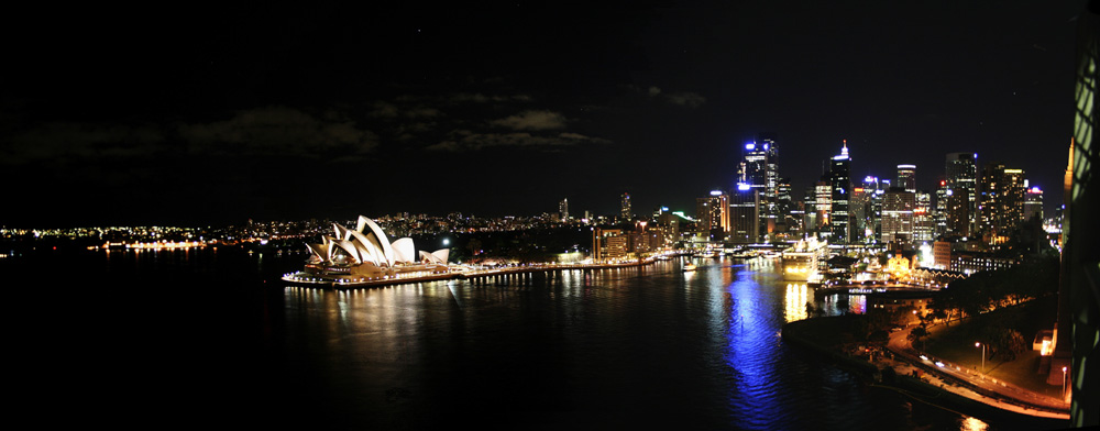 Picture of Sydney at night. Hight-resolution available. Taken by Baptiste Deleplace